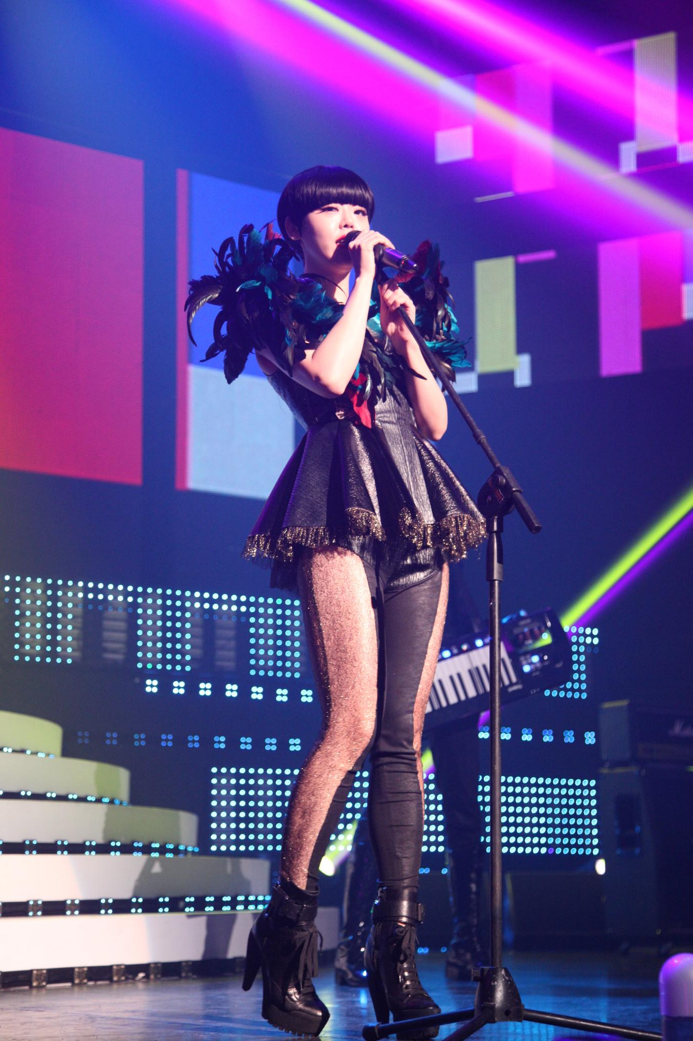 Cyworld Dream Music Festival